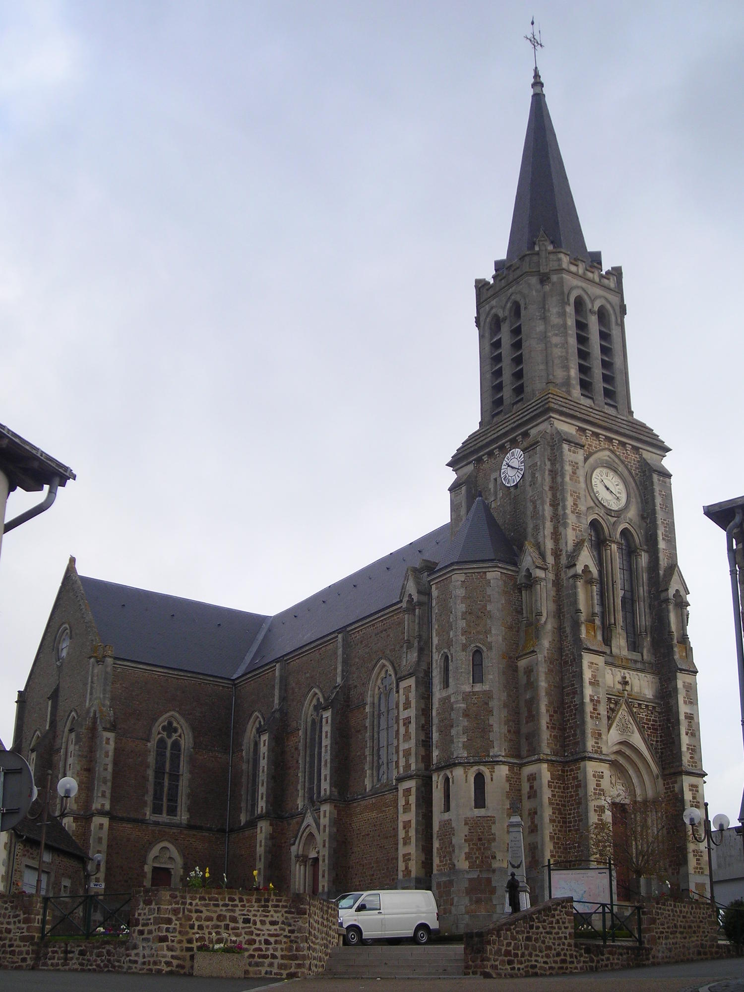 Church of Montenay